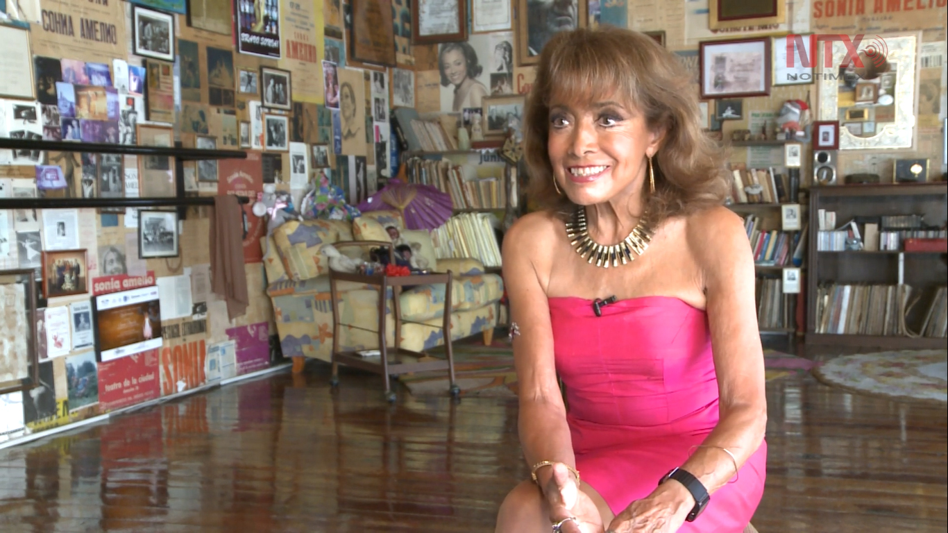 Mexican dancer and choreographer Sonia Amelio on an interview for NotimexTV.